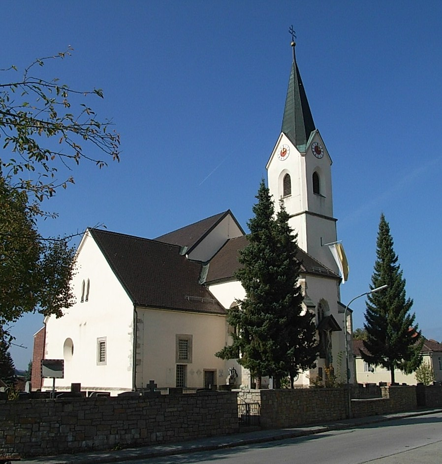 Tiefenbach (Passau), St Margaret Parish Church from south-east.